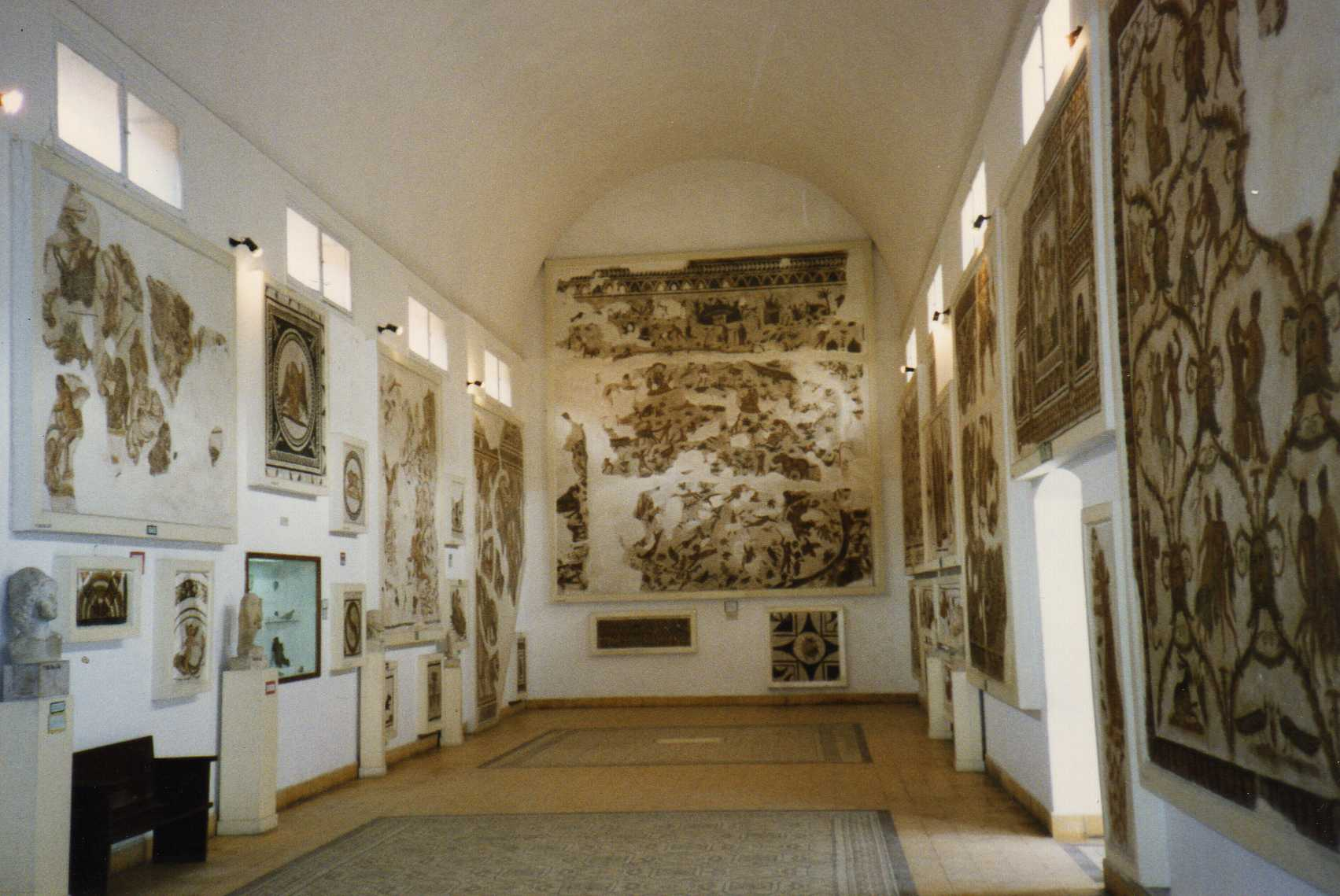 Archaeological Museum of Sousse, Tunisia